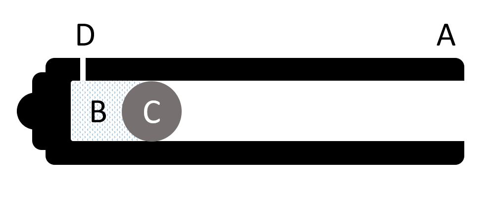 The principle of the muzzleloader